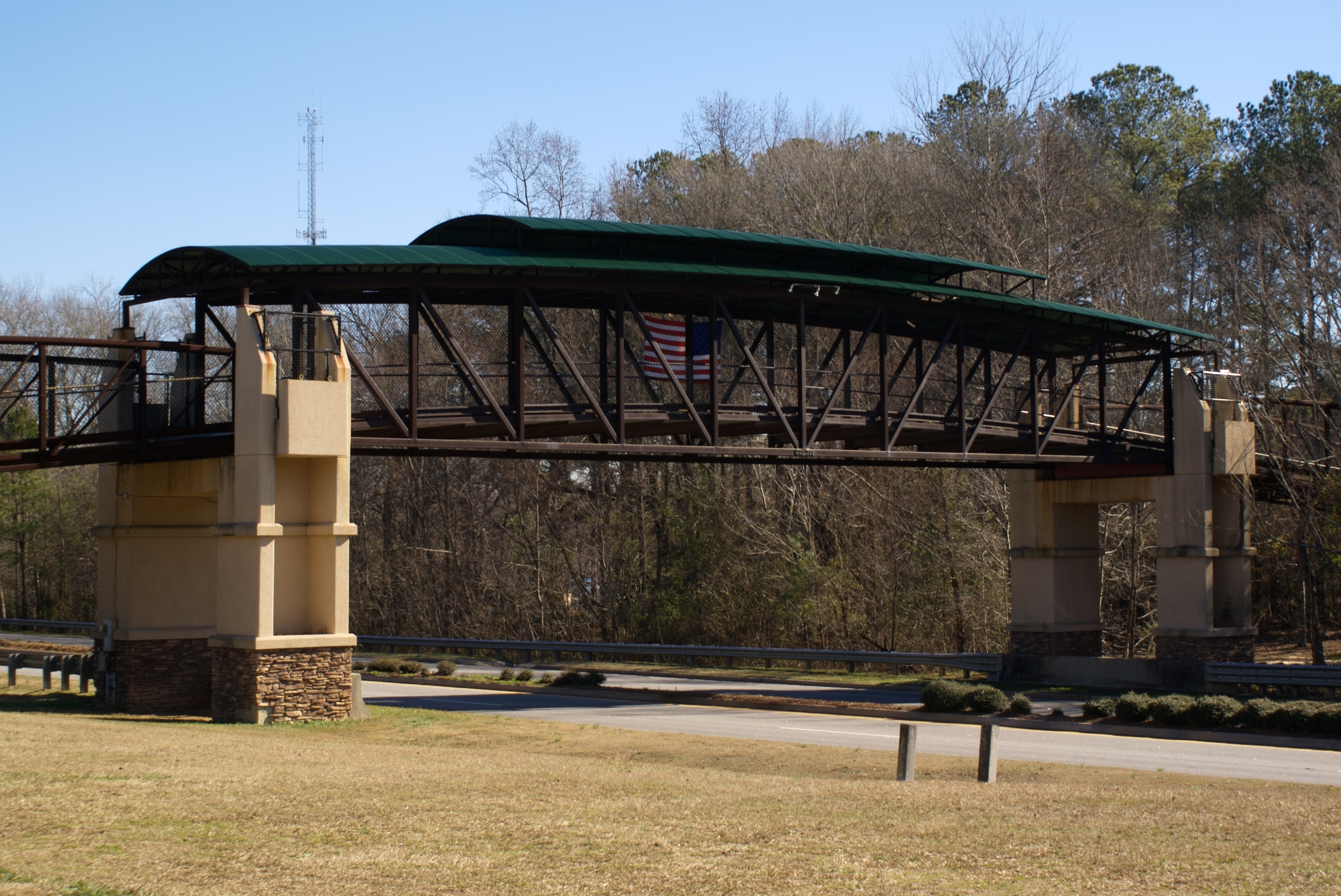 This is a Golf Cart bridge in Peachtree City, Georgia, United States that passes over Georgia State Route 54.